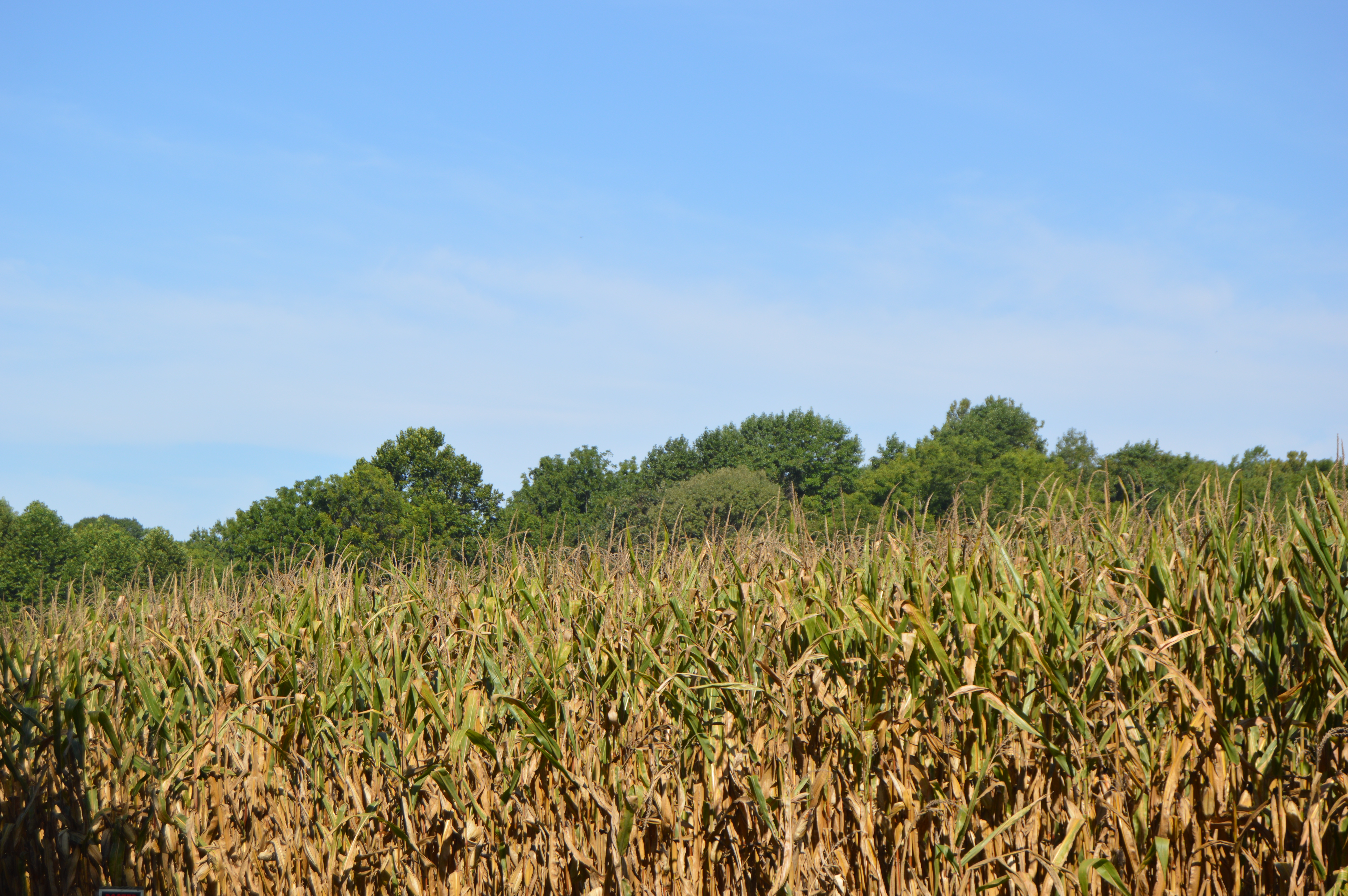 Overview of the Fairfield Site, located off Fairfield Lane west of Clopton in Gloucester County, Virginia, United States. Fairfield is an archaeological site and has been listed on the National Register of Historic Places.